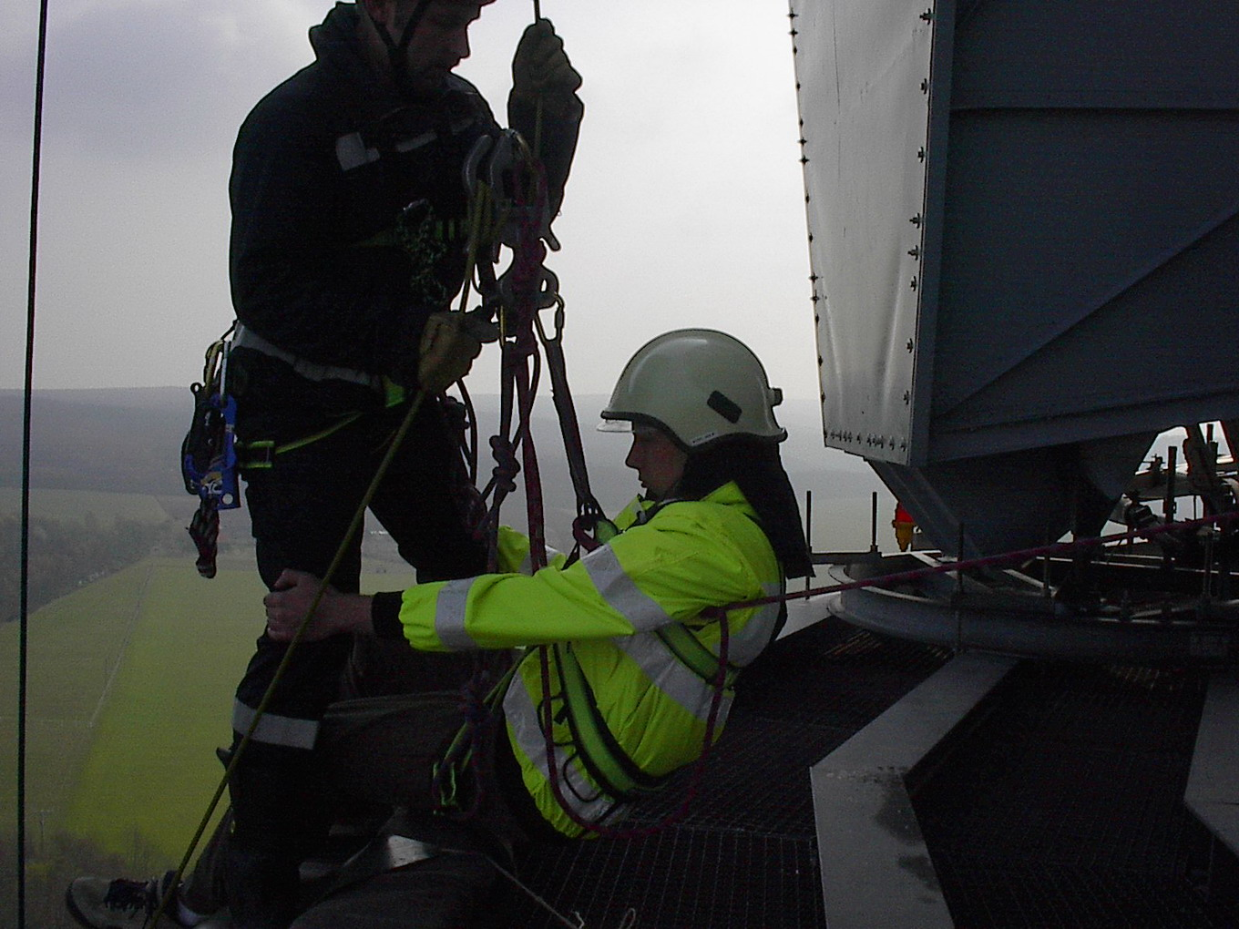 Exercise high angle rescue, Goettingen, Germany